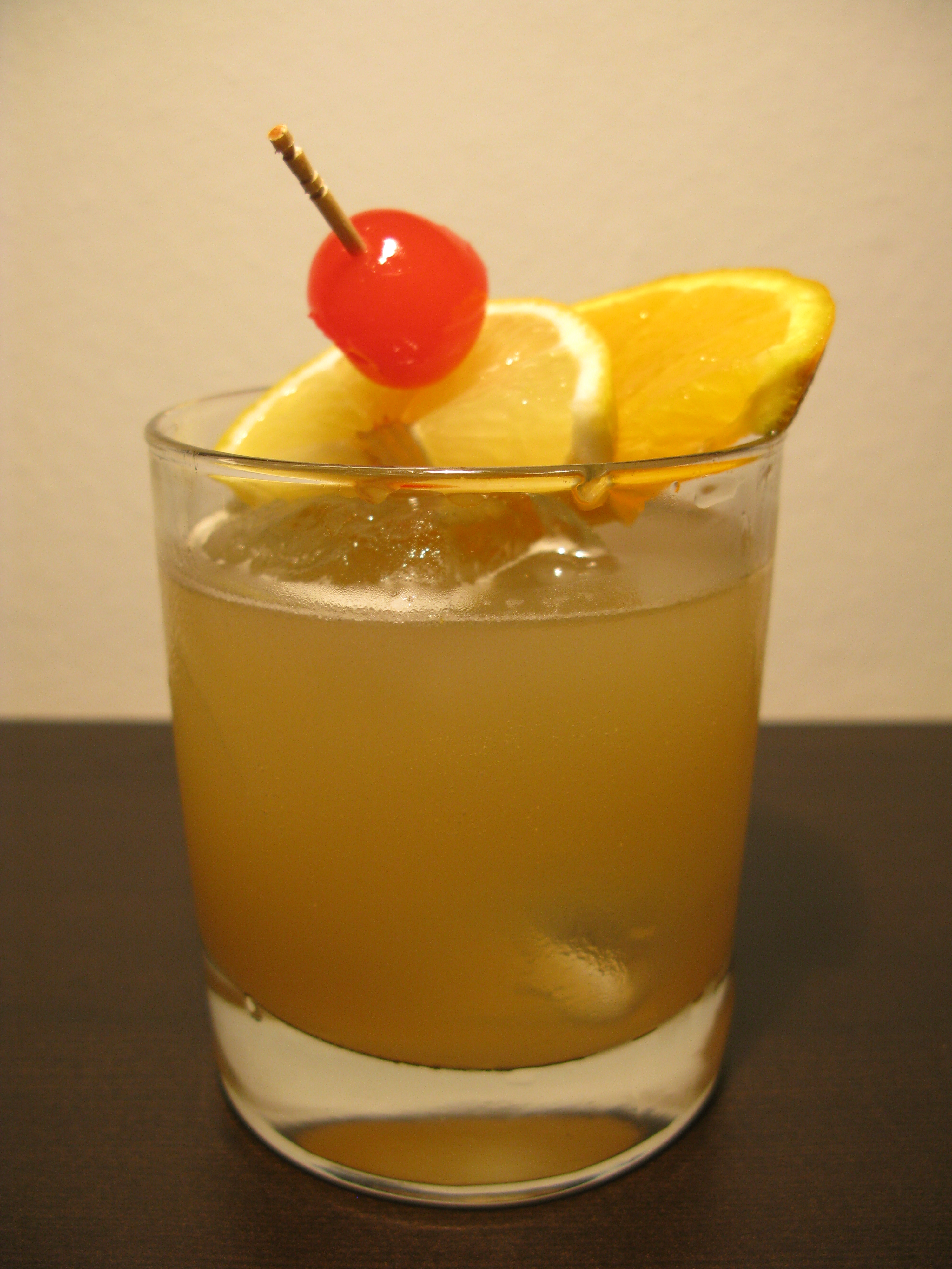 Photo of a Whisky Sour